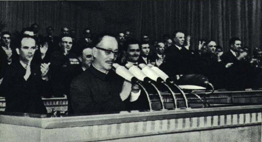 1967-01 1966年康生出席阿尔巴尼亚共产党党代会